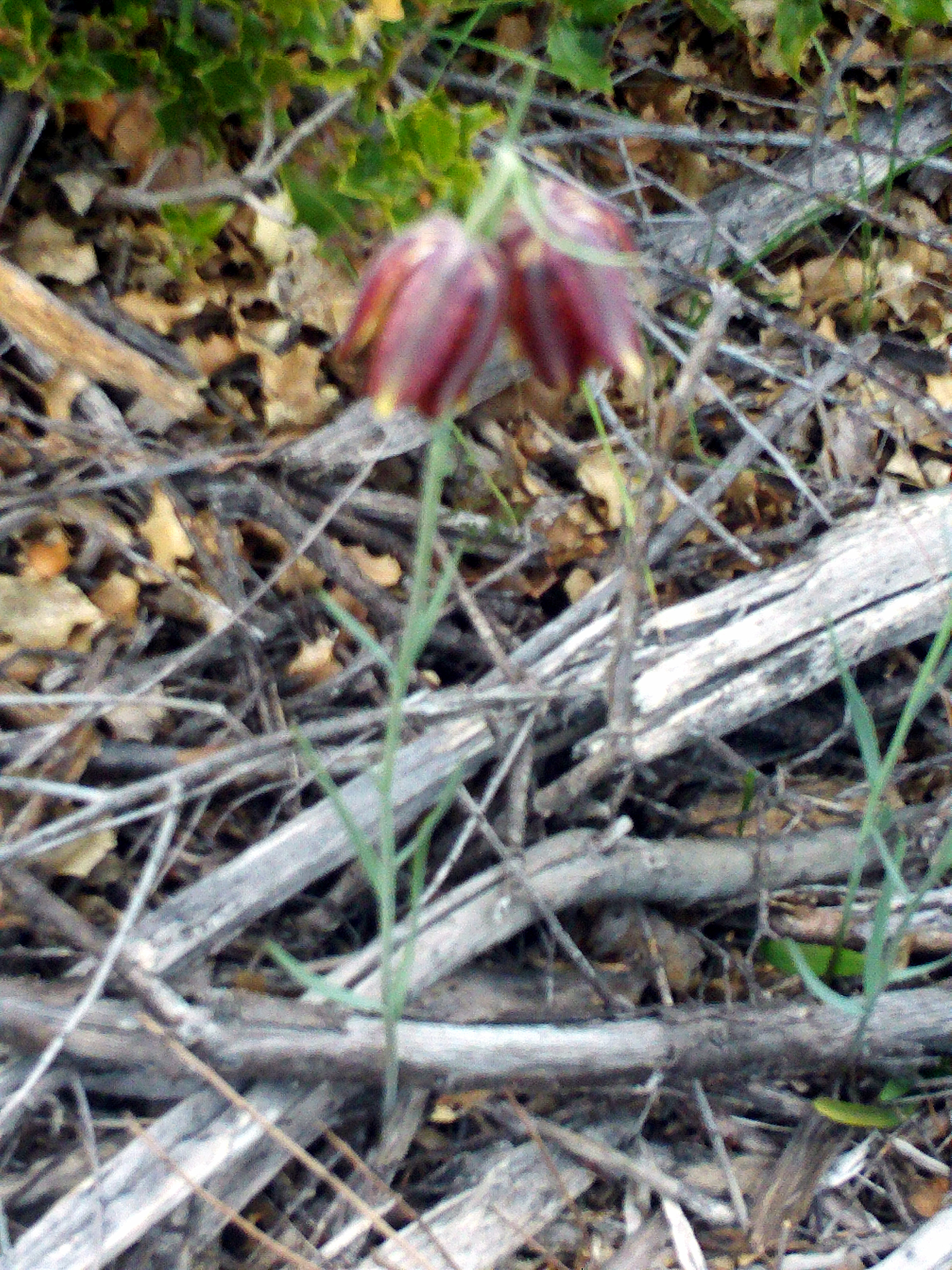 Fritillaria lusitanica plant, Dehesa Boyal de Puertollano, Spain